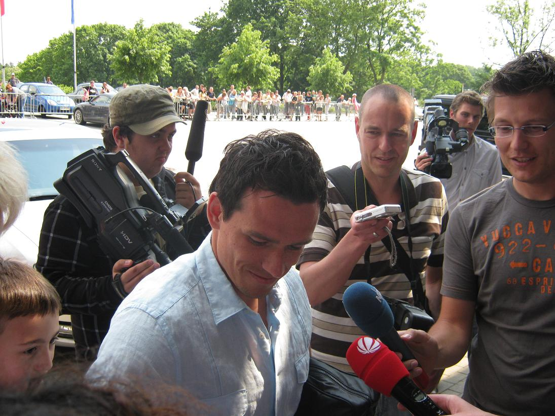 Piotr Trochowski outside the Nordbank Arena with fans and reporters.